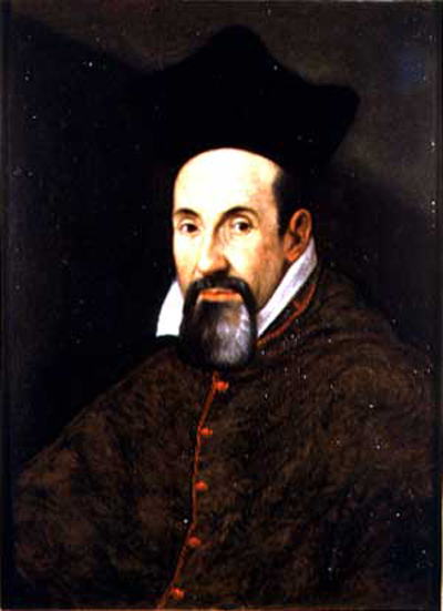 Portrait of Cardinal Benedetto Giustiniani (1554-1621)